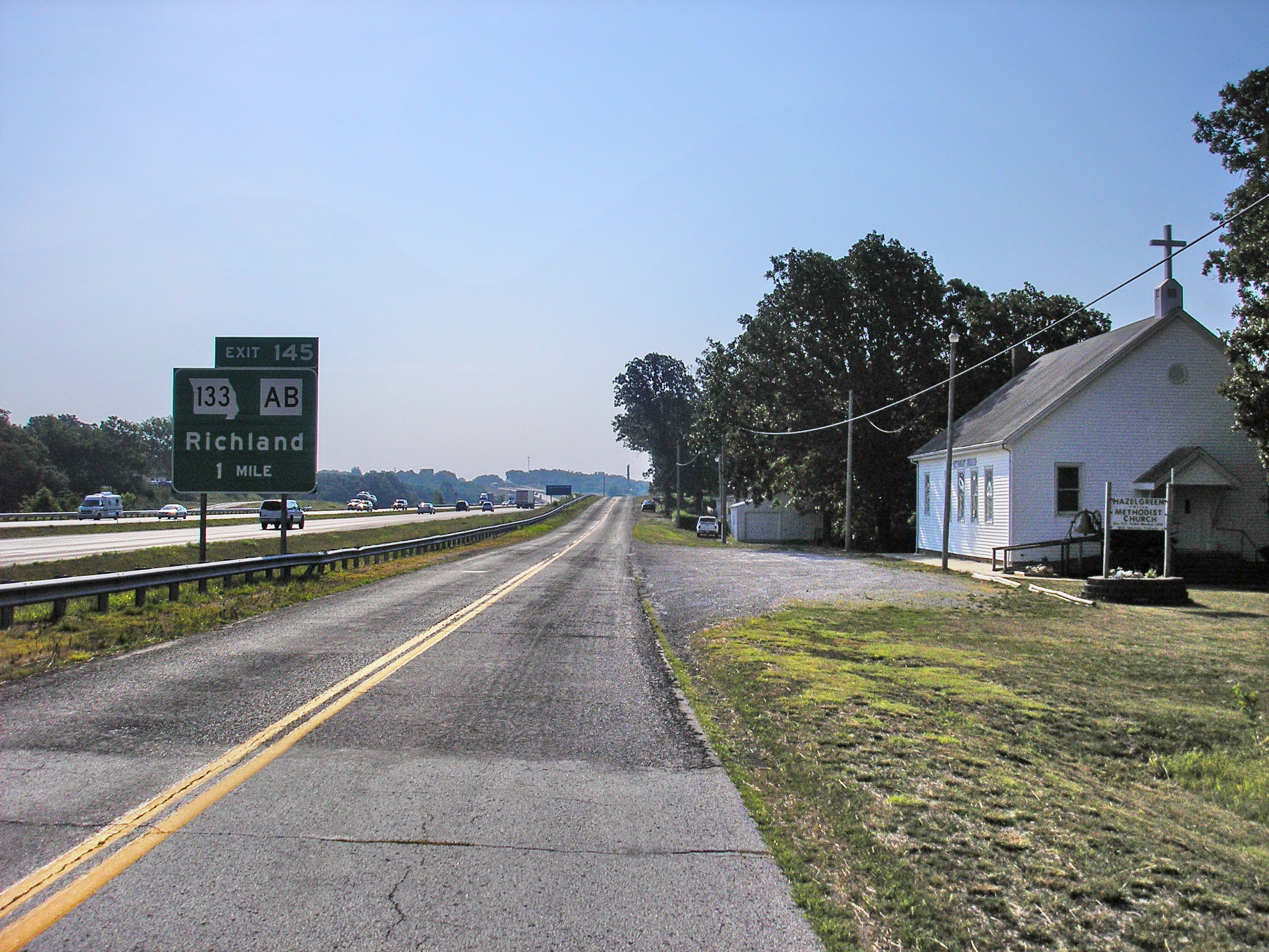 I-44 eastbound near Hazelgreen, Missouri. Self taken photo.